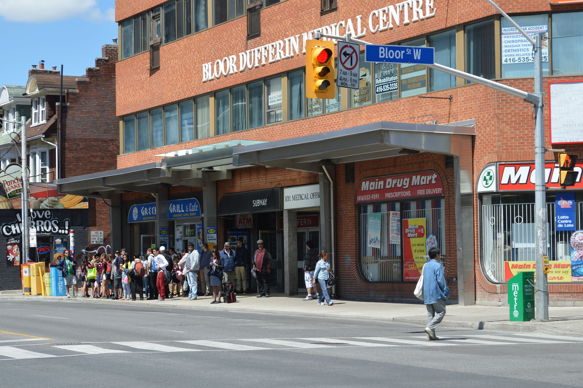 Northeast corner of Dufferin Street and Bloor Street West. Dufferin TTC subway station has recently had a canopy constructed above the east sidewalk at the station entance